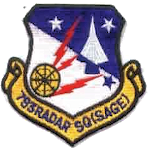 Emblem of the 739th Radar Squadron